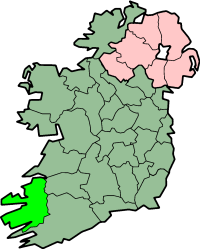 County Kerry (Ireland) 08:04, 5 February 2004 Morwen 200x249 (30507 bytes) (map)